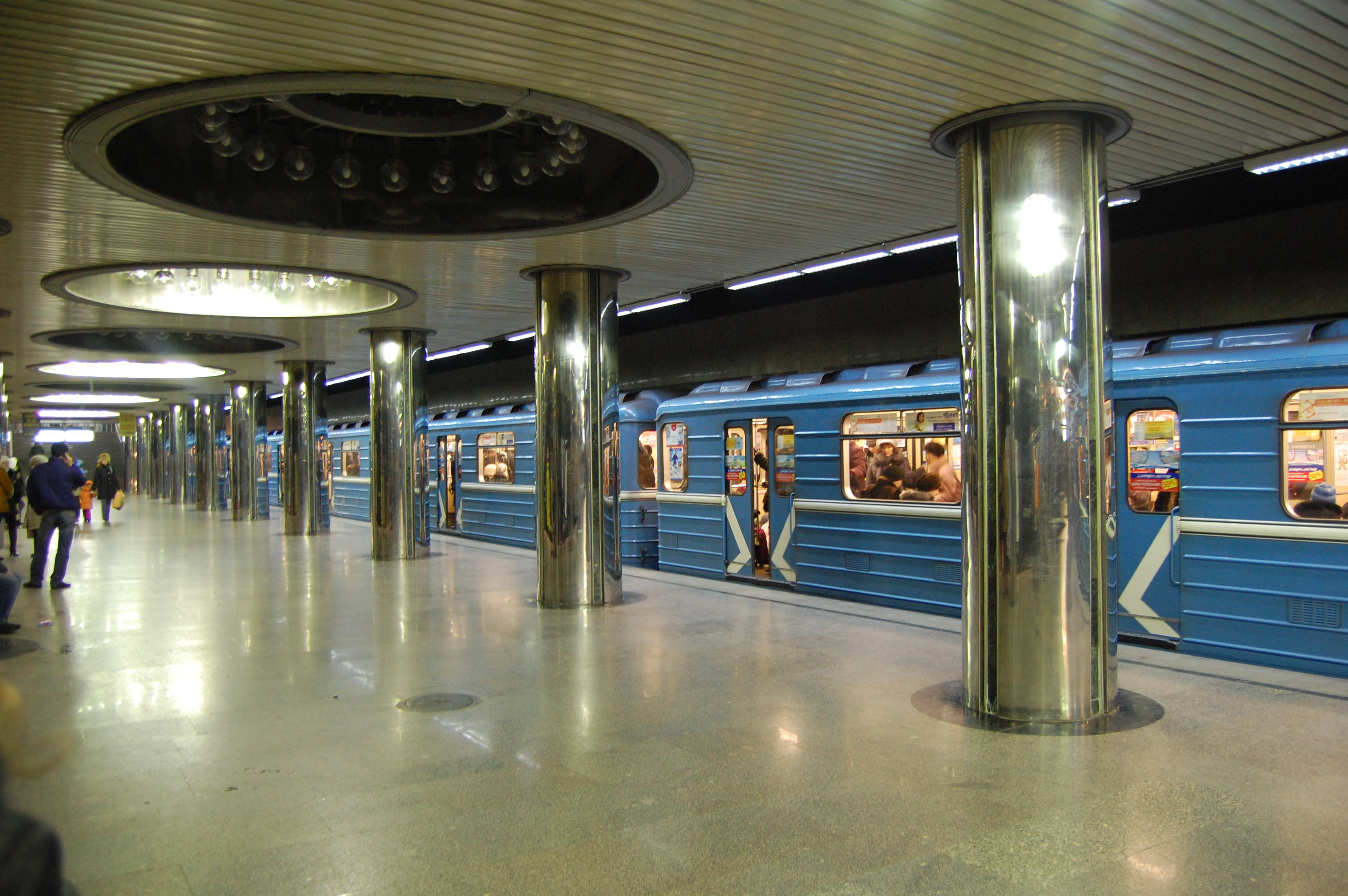 Prospekt Kosmonavtov subway station